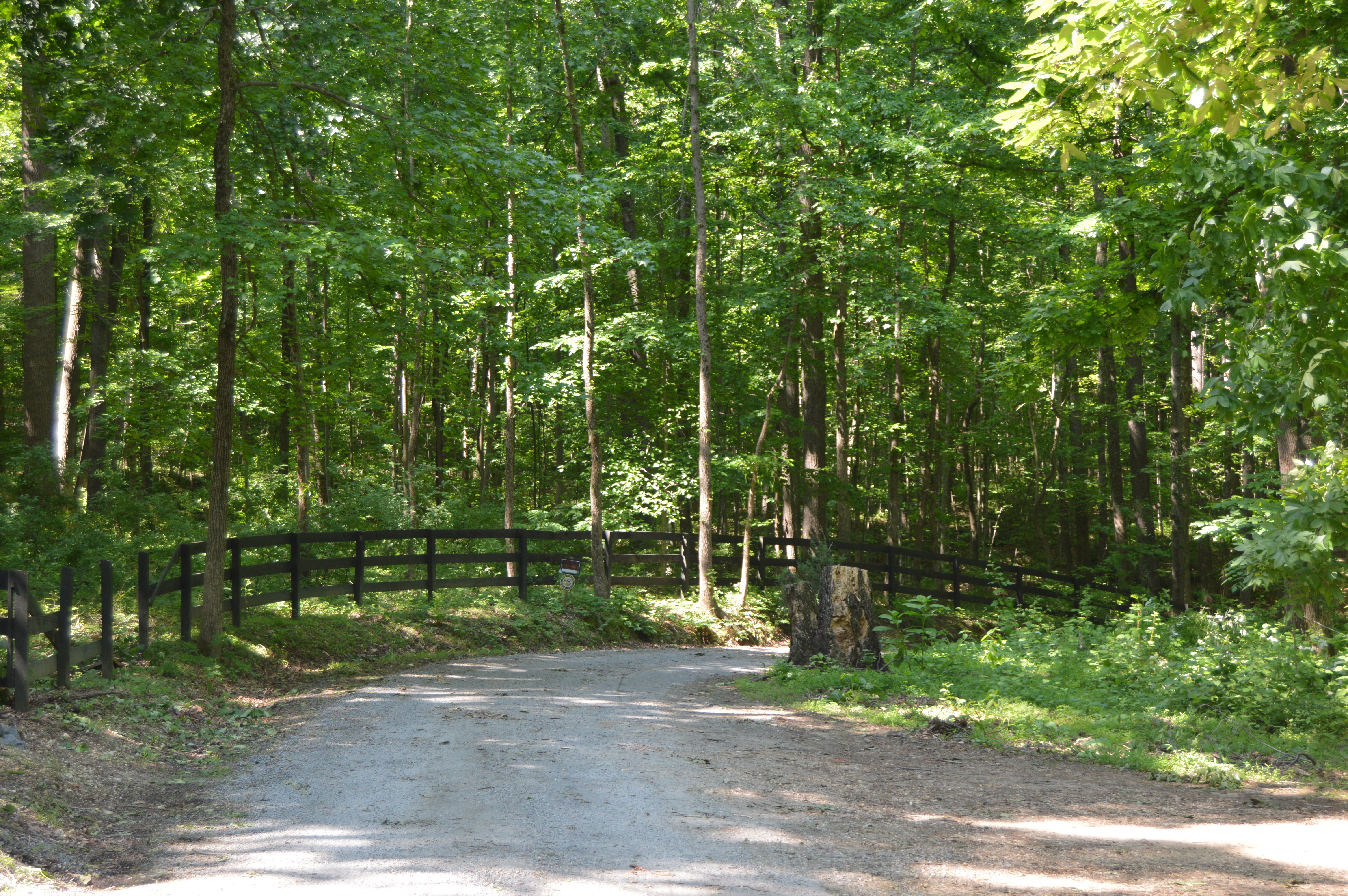 Driveway to the Moss Neck Manor estate, located off Burma Road southeast of Maryton in Caroline County, Virginia, United States. The estate is listed on the National Register of Historic Places.